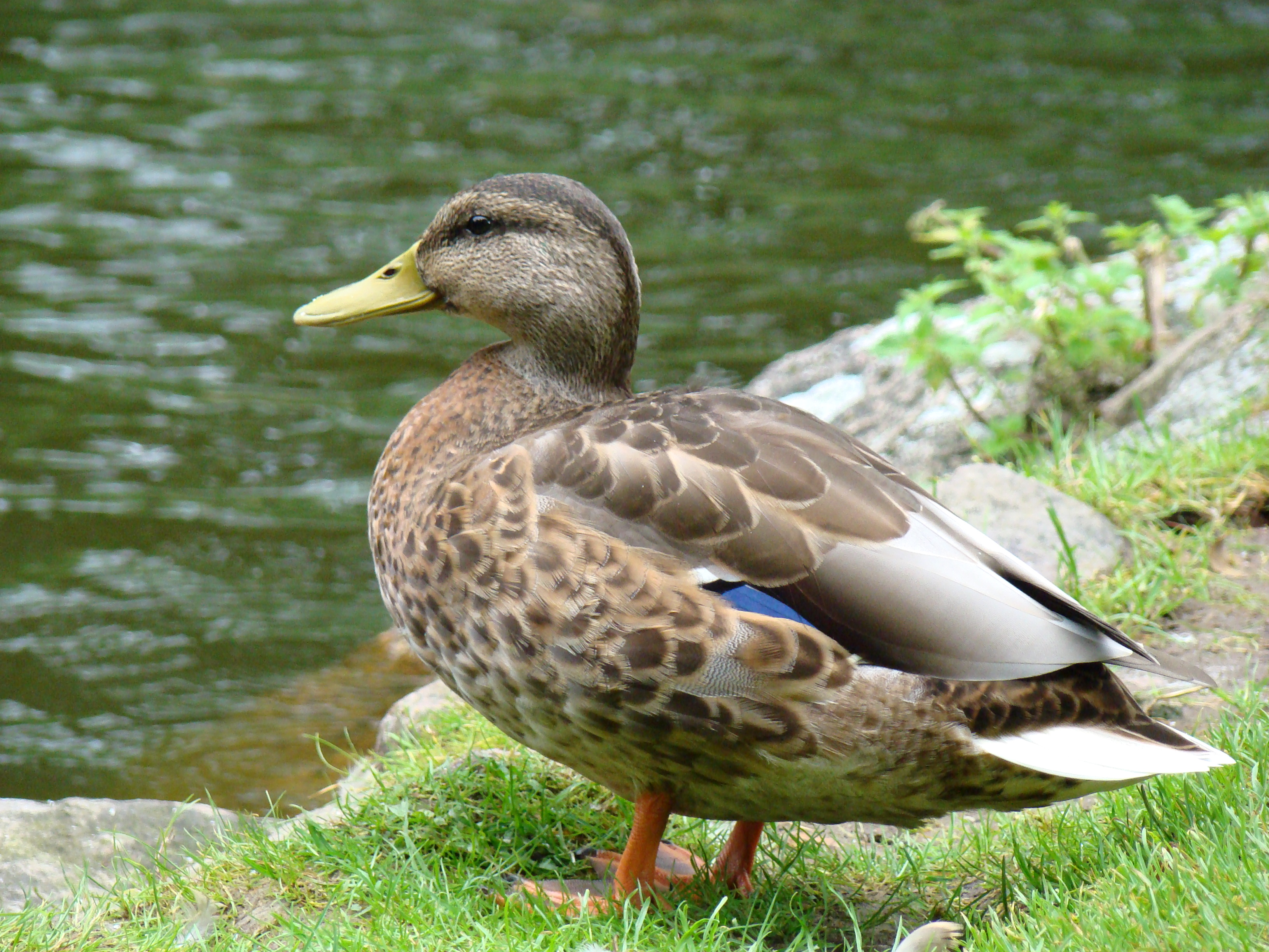 Photo of the Mallard male (Anas platyrhynchos) in eclipse plumage in Palanga, Lithuania.